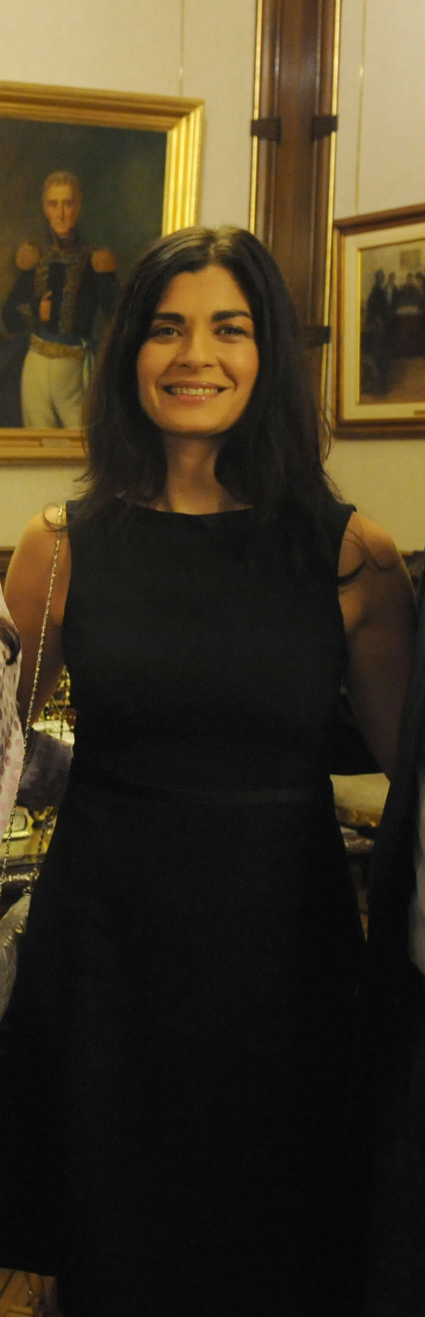 Argentine actress, Soledad Villamil, in Casa Rosada (argentine government building). Buenos Aires.